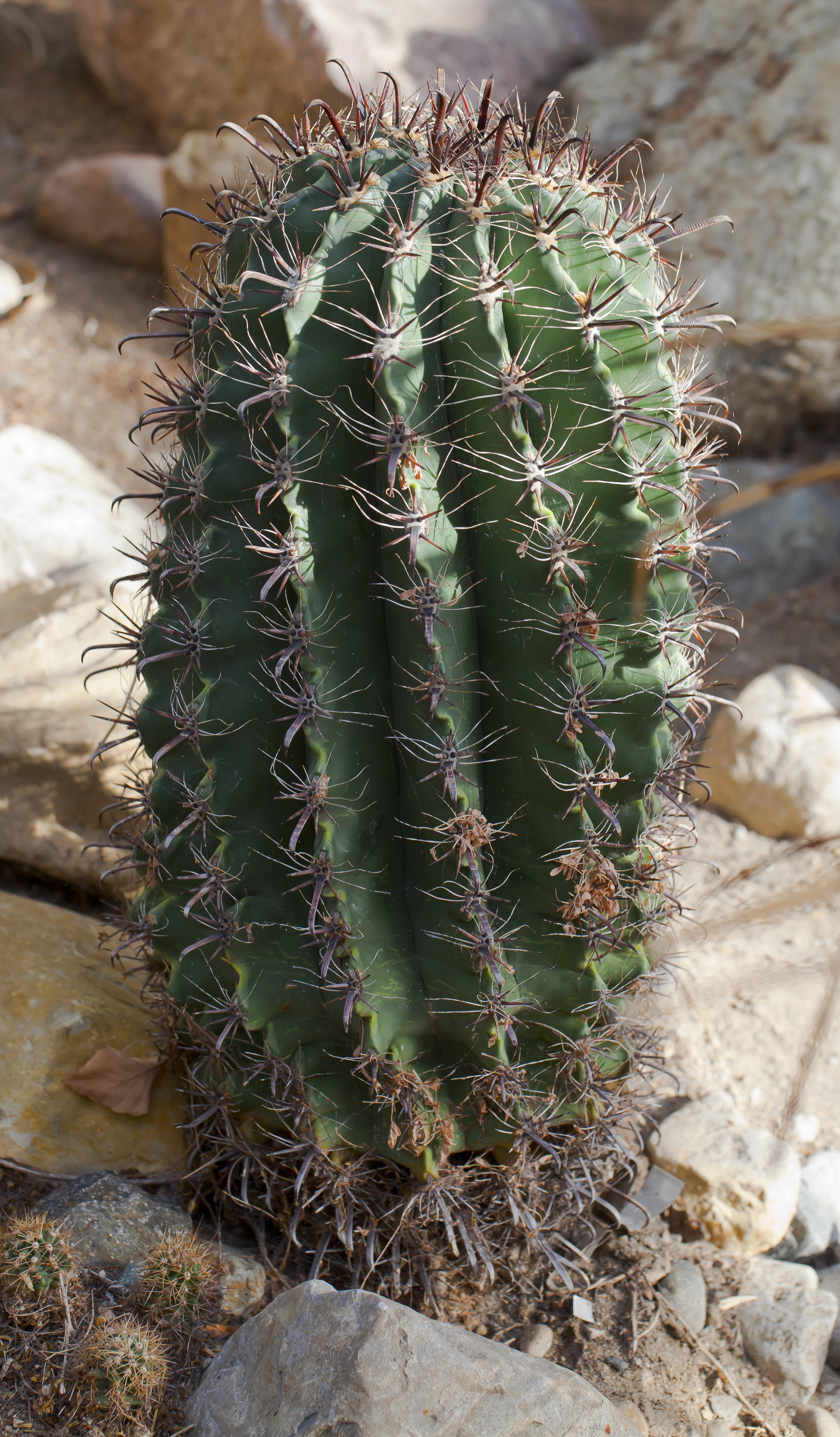 Ferocactus wislizeni, Botanic Conservatory, Fort Wayne, USA